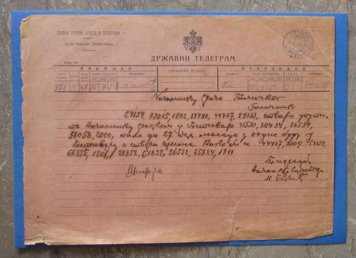 Galichnik Cable